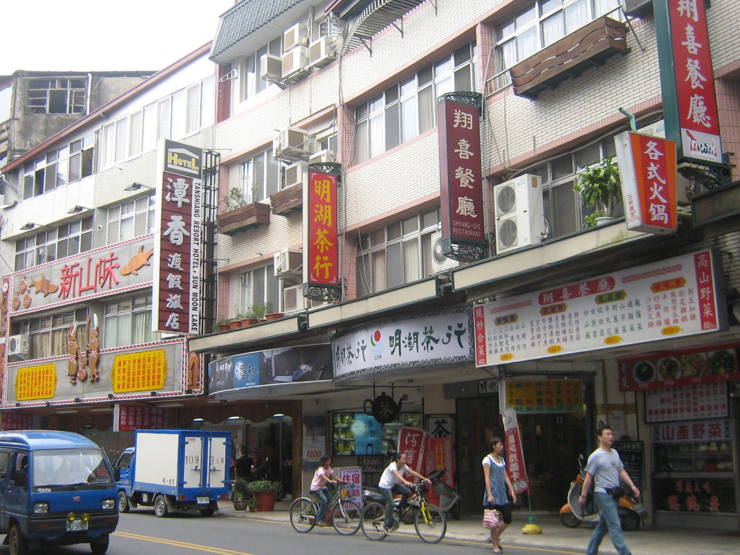 Yuchi Township, Nantou County, Taiwan